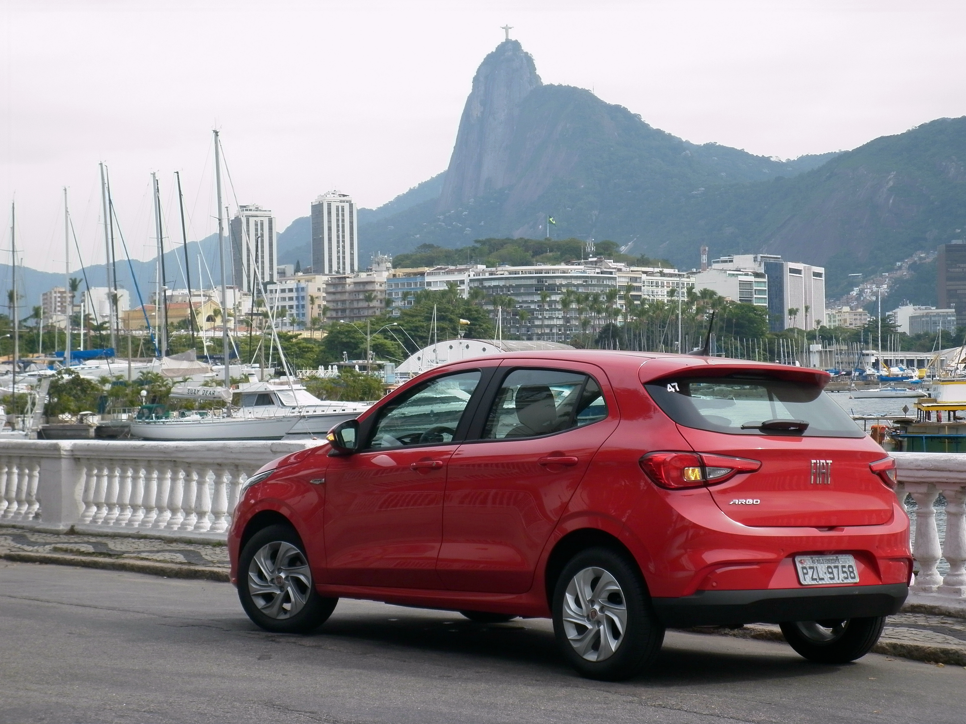 Brazilian made Fiat Argo Drive in Rio de Janeiro.